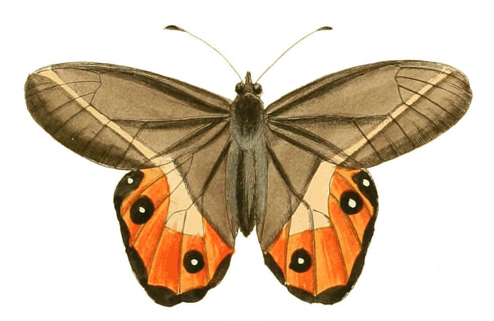 Extract from Plate XXXV. HIPPARCHIA NEREIS ♂ (= Pierella nereis).